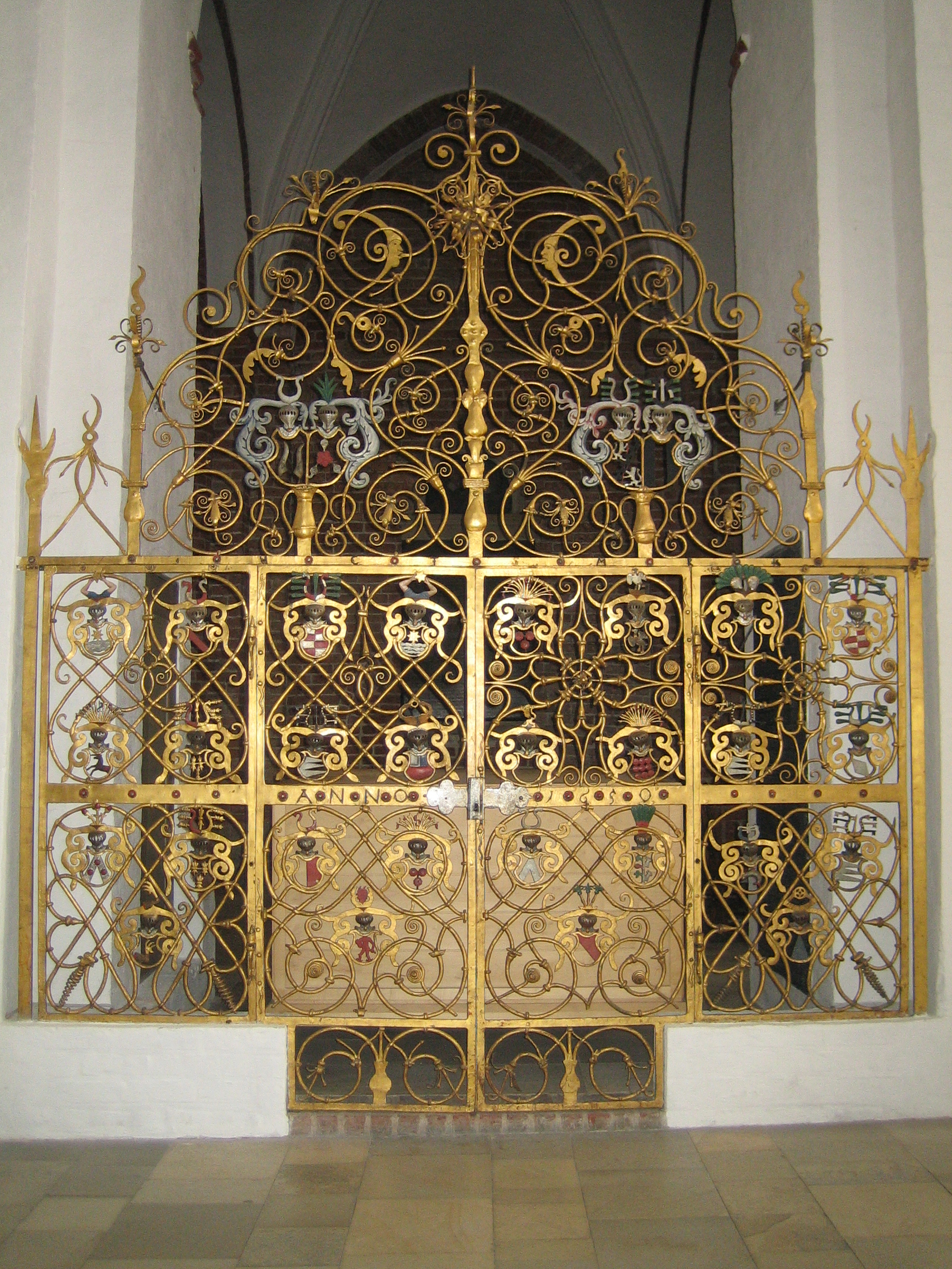 A golden forged gate inside the Aarhus Cathedral.